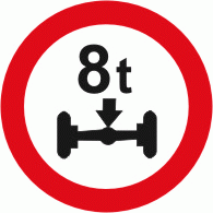 Diagram of road signs of Luxembourg